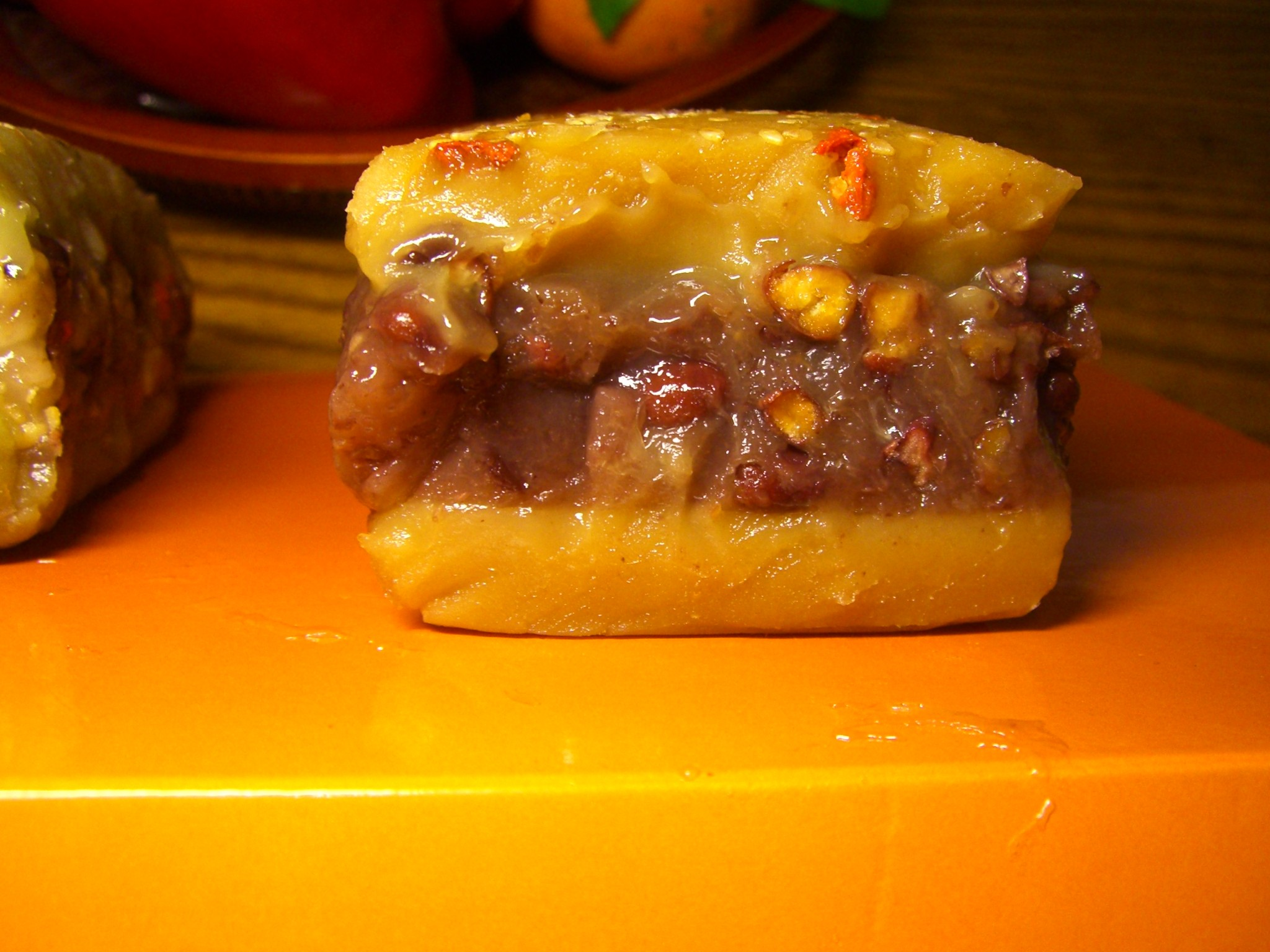 Niangao (Chinese New Year lucky cake) red beans paste between two layers of longane flavoured rice paste. My own work, I'ma ashamed to admit (for worse, see Niangao1).